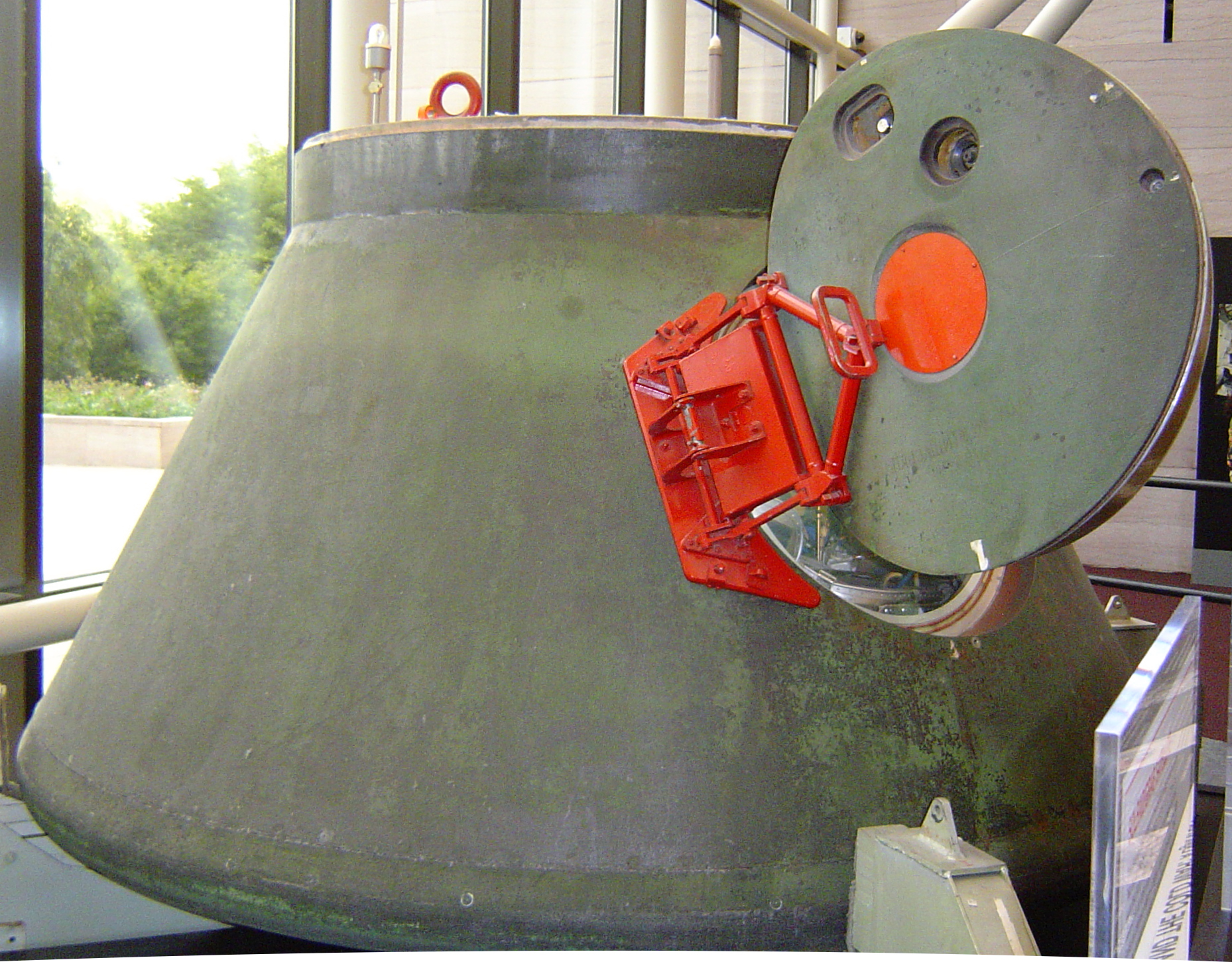 The VA return capsule of the Soviet Kosmos 1443 TKS spacecraft, seen in the National Air and Space Museum, Washington D.C.